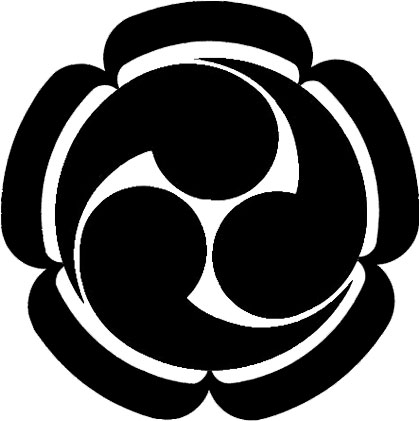 Hitoe Goso ni Hidari Mitsudomoe